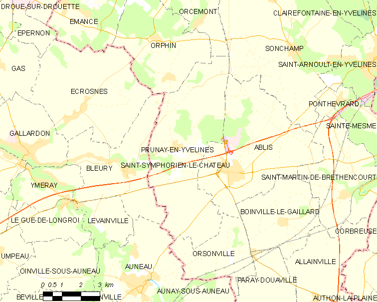 Map of French municipality Prunay-en-Yvelines